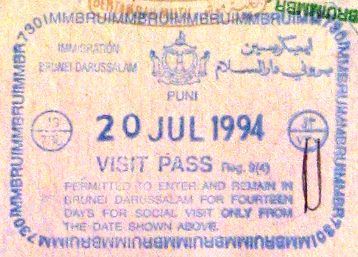 Brunei entry stamp from the Puni border checkpoint in the separate Temburong District. The Temburong District is an isolated territorial enclave separated from the rest of Brunei by the Sarawak State of Malaysia.